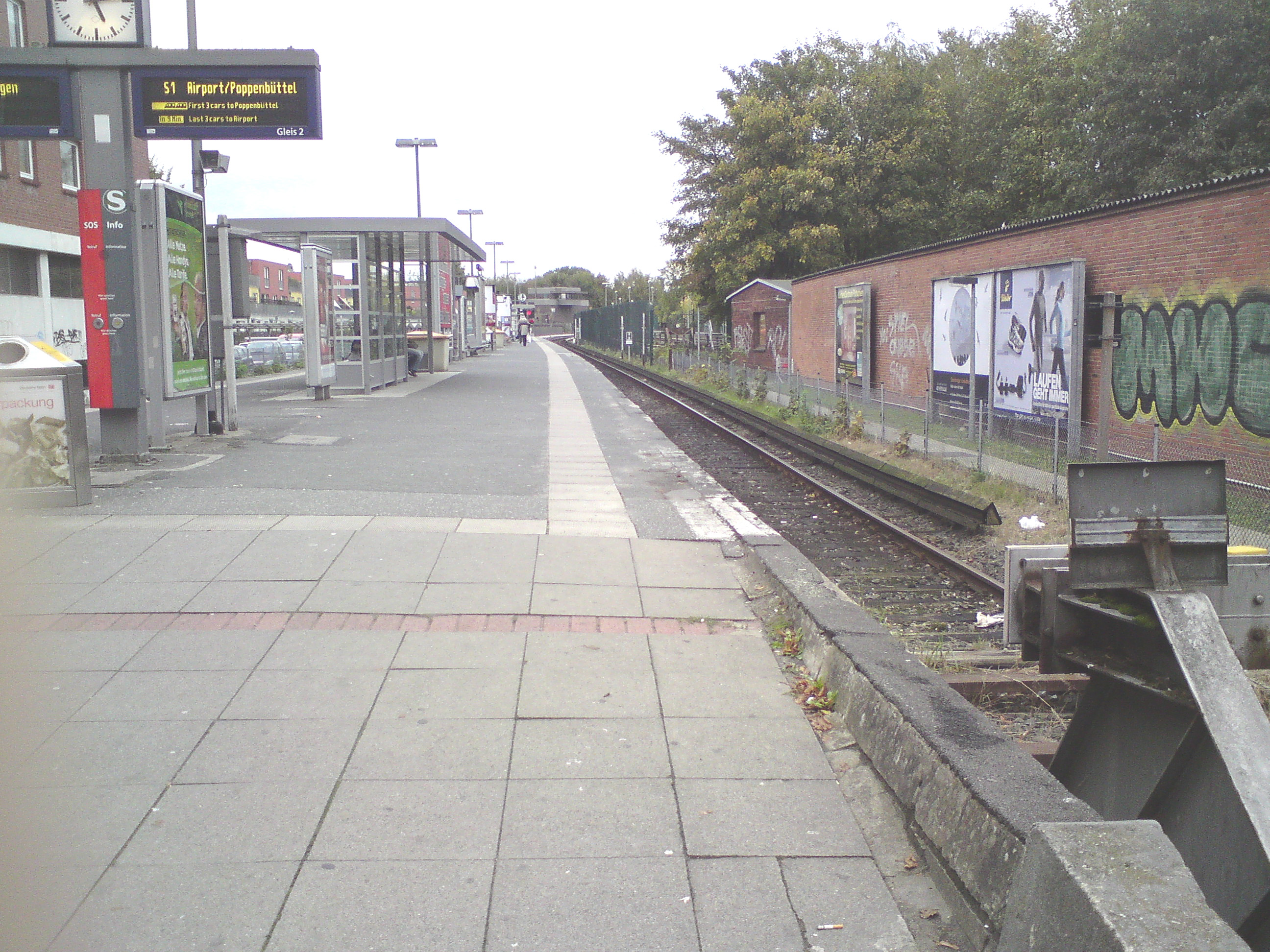 S-Bahn station Wedel of the Hamburg S-Bahn in Germany